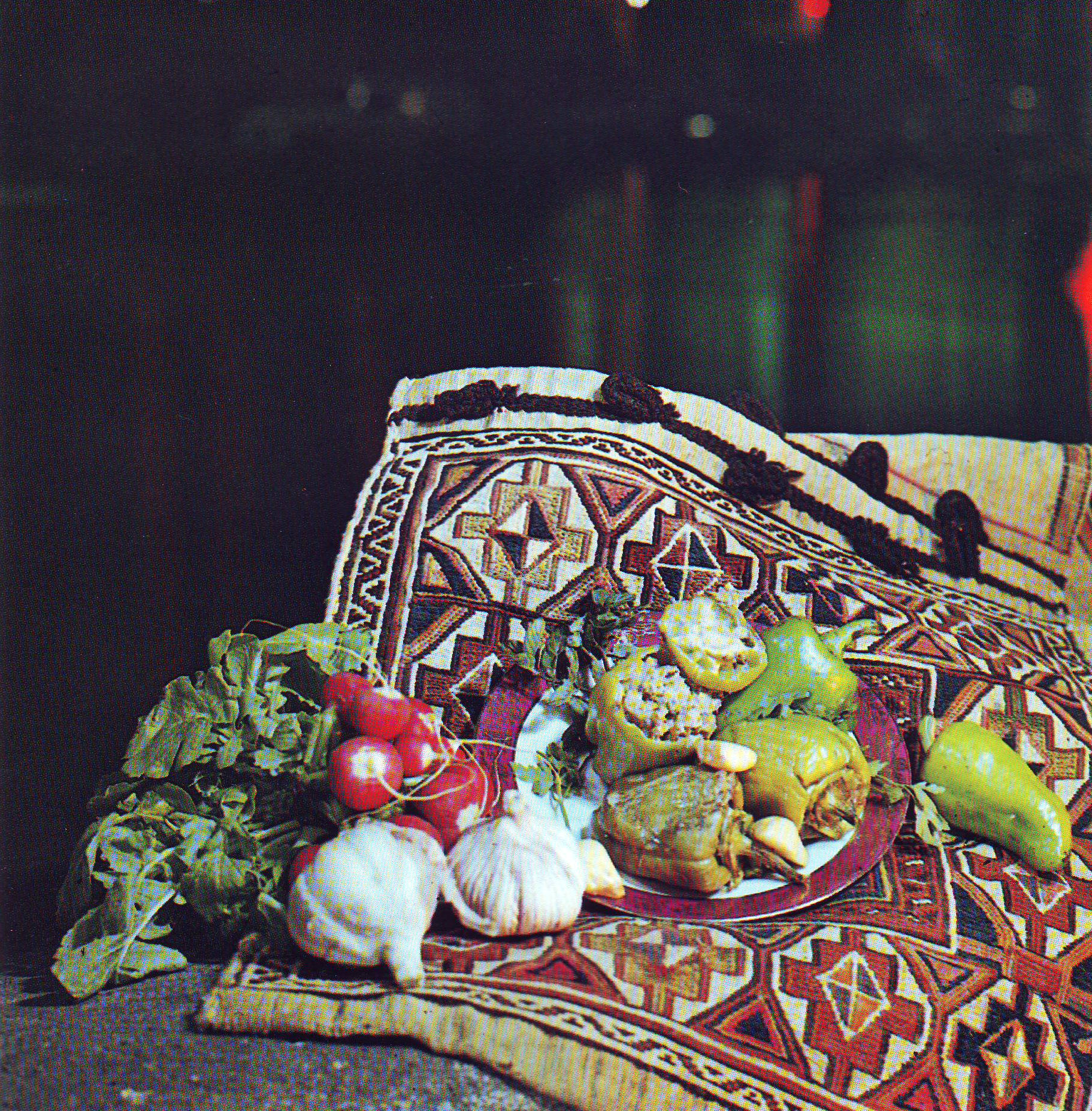 Cuisine of Azerbaijan: Bibyar dolmay (stuffed sweet capsicum or paprika)